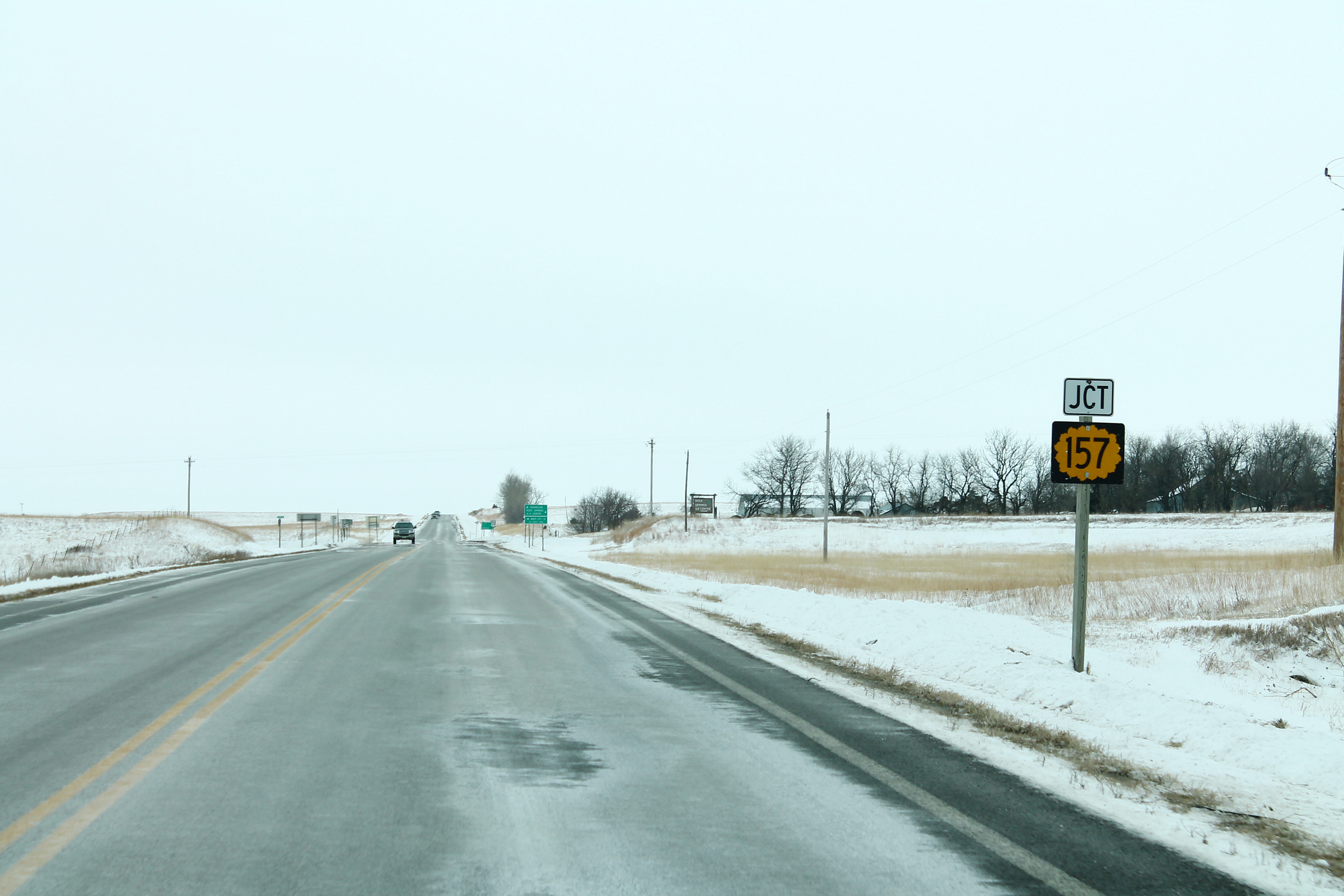 K-157 Sign on US 77 South